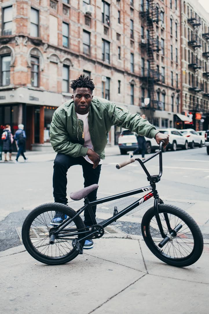 Nigel Sylvester in Lower East Side Manhattan